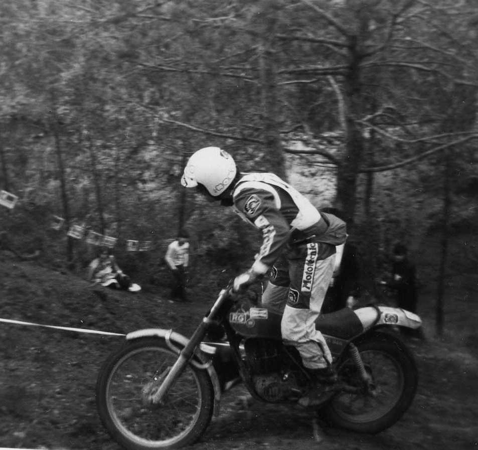 Ulf Karlson with his Montesa Cota 348 at XII "Trial de Sant Llorenç" in Matadepera (Catalonia) on March 12, 1978. It was the 5th race of the Trial World Championship. He finished 4th. This was the section #15, near "La Barata" (close to the road from Matadepera to Talamanca).